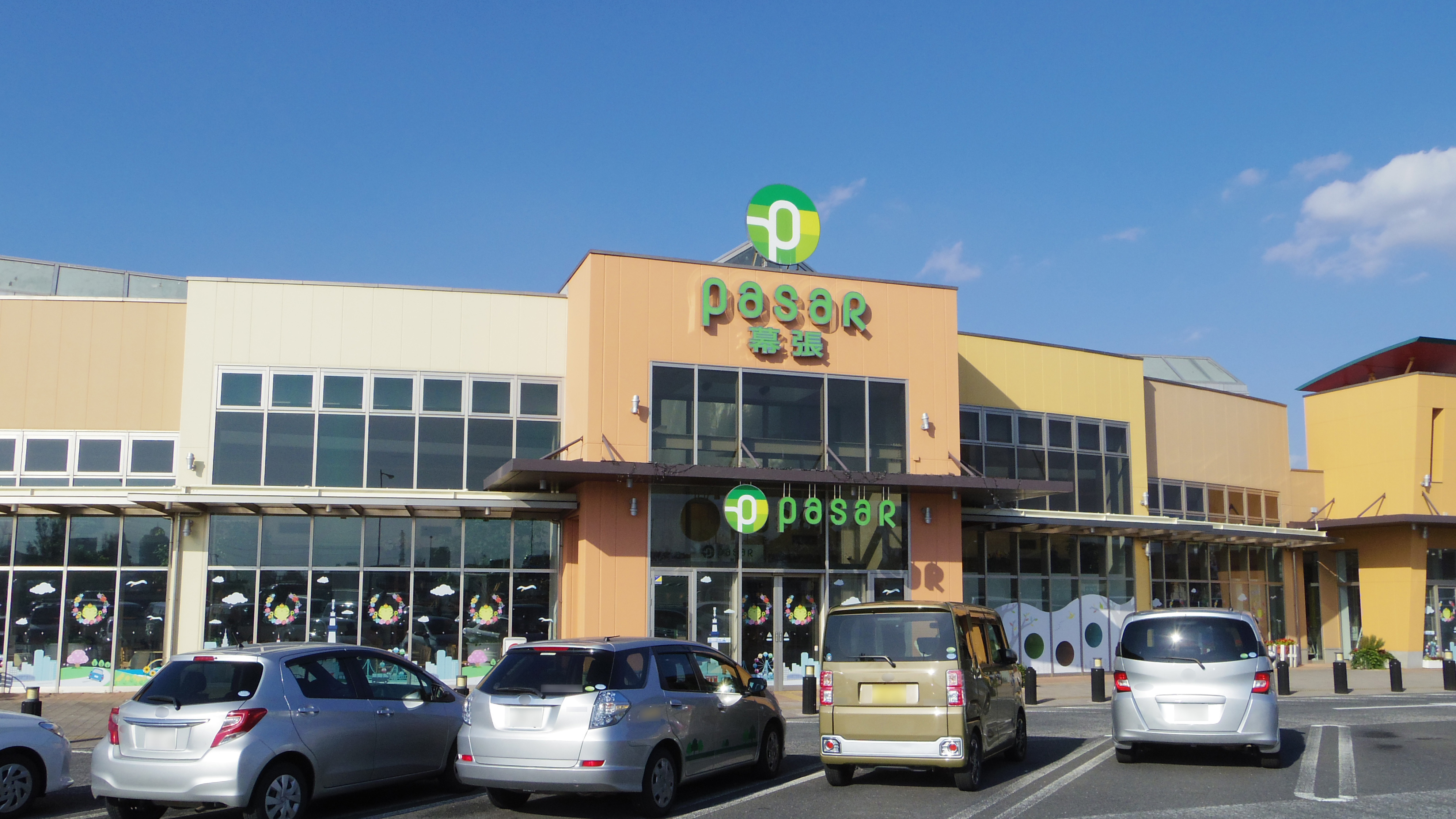 The Pasar Makuhari(Makuhari parking area(rest area)) on the Keiyō Road in Hanamigawa-ku, Chiba city, Chiba prefecture, Japan